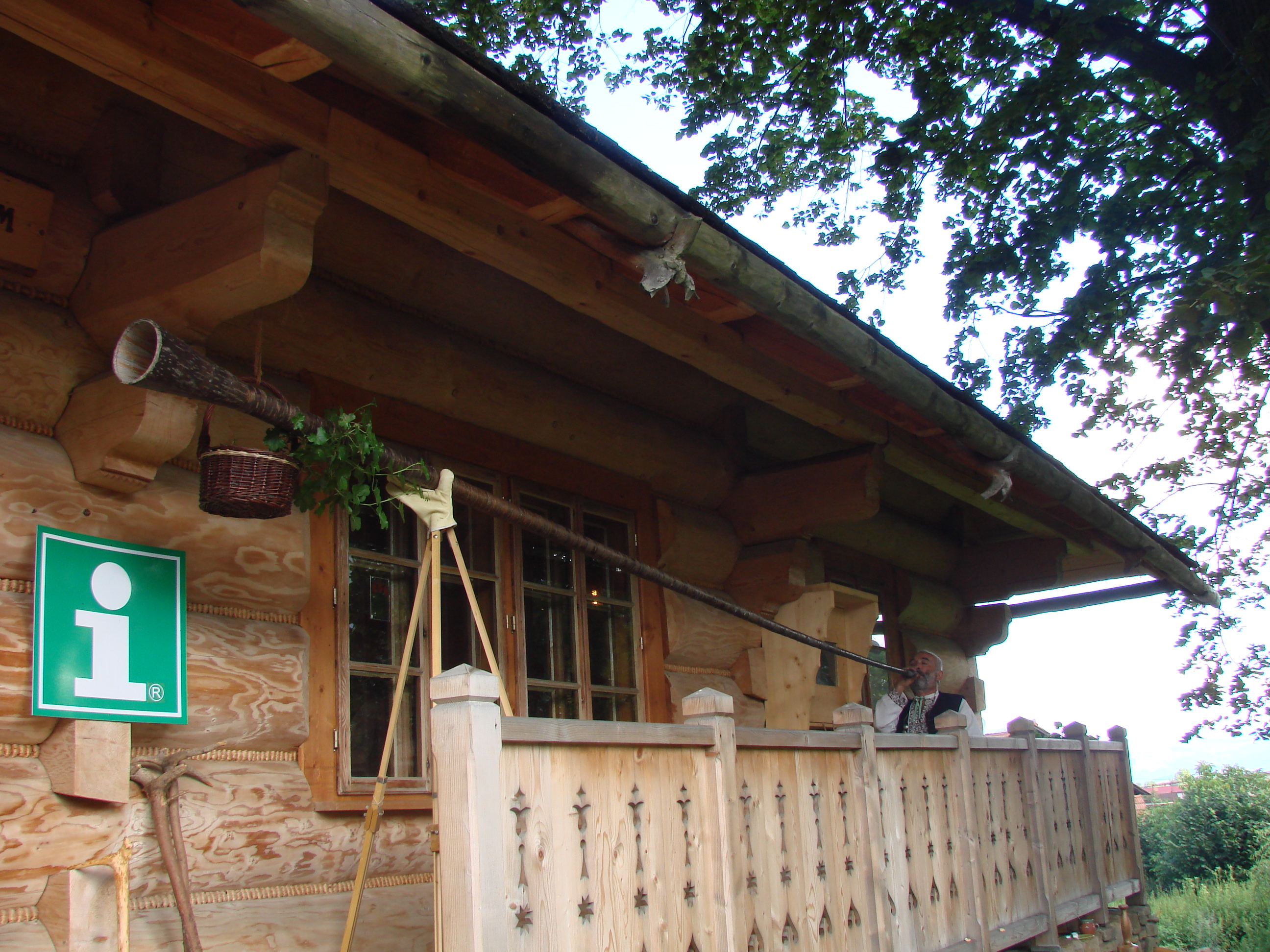 Goral (people from the Beskydy mountains from the Czech Republic) musical instrument - "trouba".